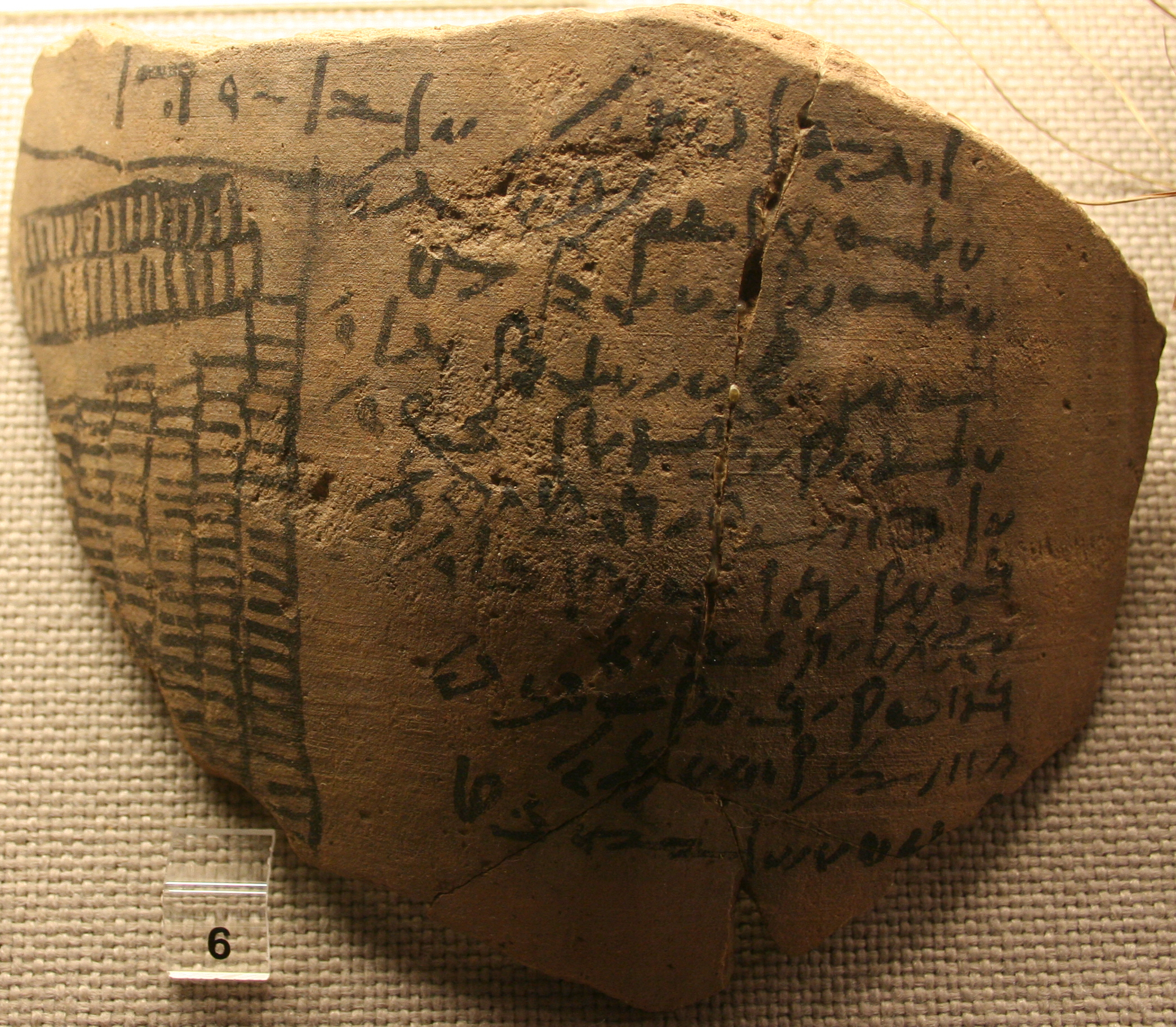 Demotic ostracon; ptolemaic period